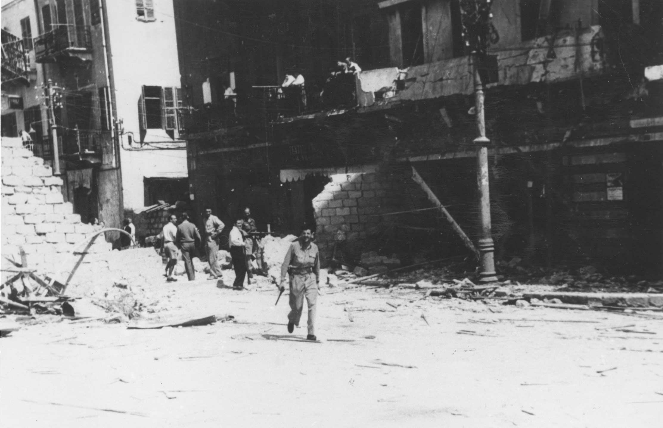 The Battle of Haifa (1948)